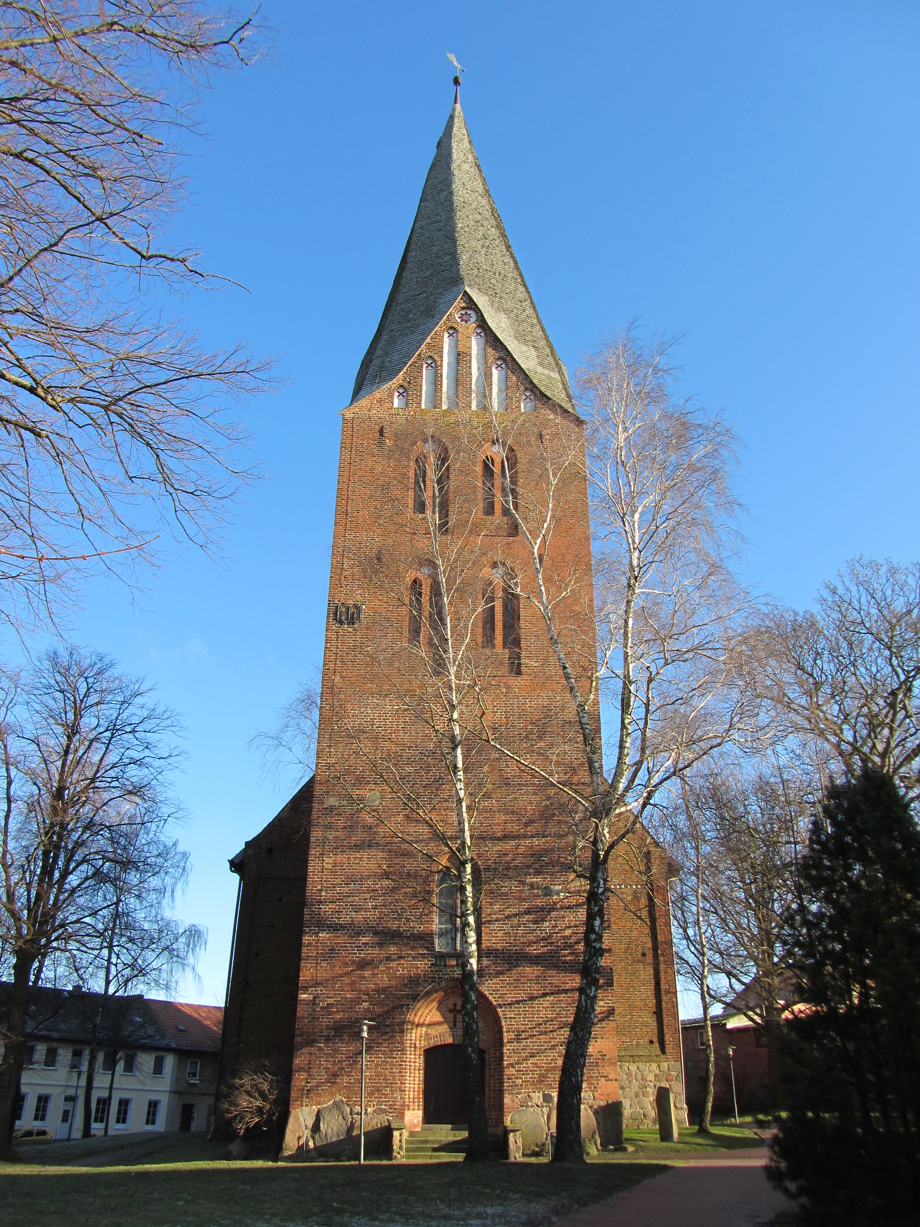 Church in Neubukow, district Rostock, Mecklenburg-Vorpommern, Germany